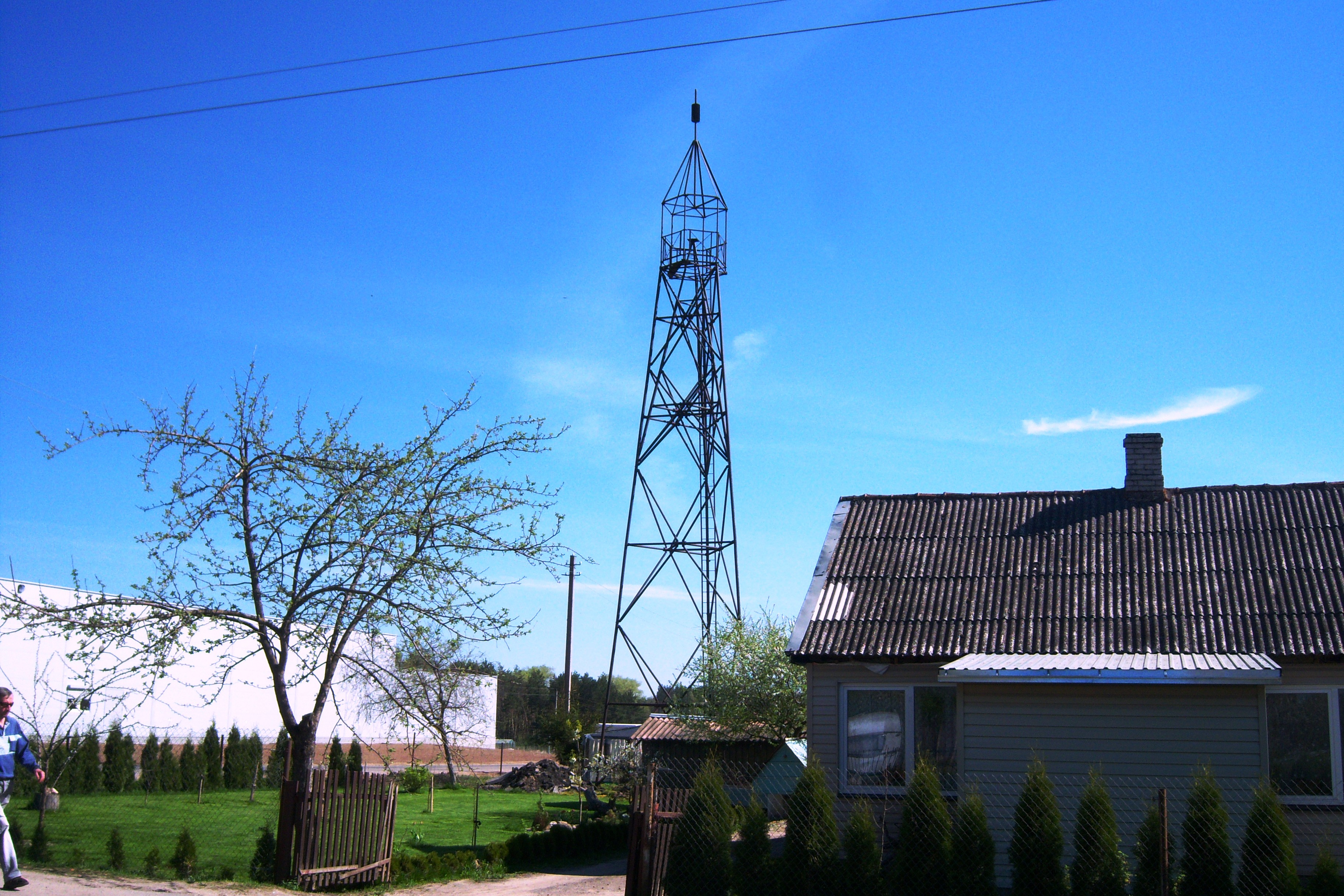 Triangulation surveying tower, Kaunas district, Lithuania